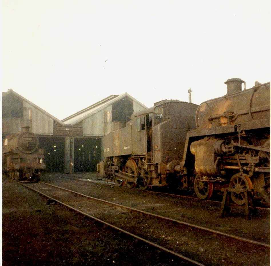 USA class 0-6-0T locomotive at Eastleigh shed in February 1967. Its original Southern railway number had been 61 & it became British Railways number 30061 after nationalisation & was allocated to Southampton Docks shed. This is one of the class that later carried a 'departmental' number, in this case DS 233, when it was allocated to Redbridge Sleeper Depot. The photo was taken at about the time it was withdrawn and it is probably awaiting disposal.